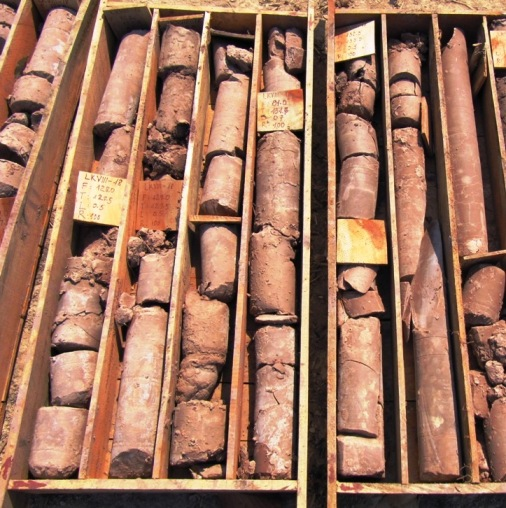 Drill Core from a survey borehole.